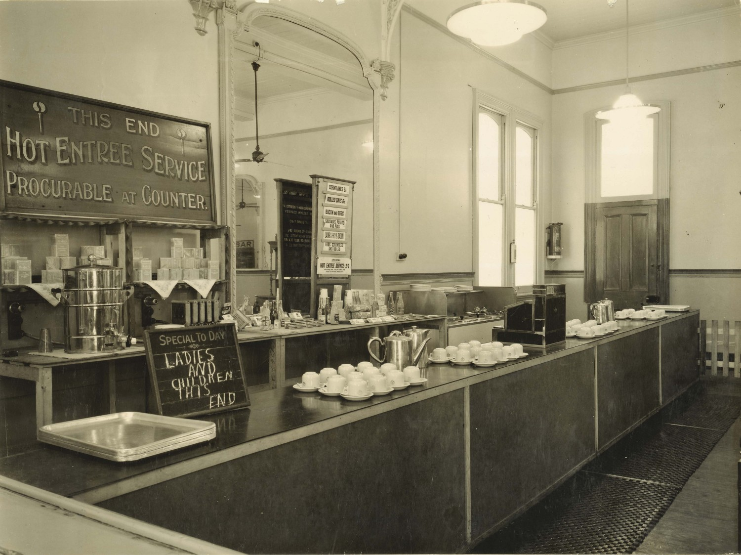 Title: Junee Railway Refreshment Room - showing section of counter Dated: 13/04/1950 Digital ID: 17420_a014_a014000064 Rights: No known copyright restrictions We'd love to hear from you if you use our photos/documents. Many other photos in our collection are available to view and browse on our website using Photo Investigator.